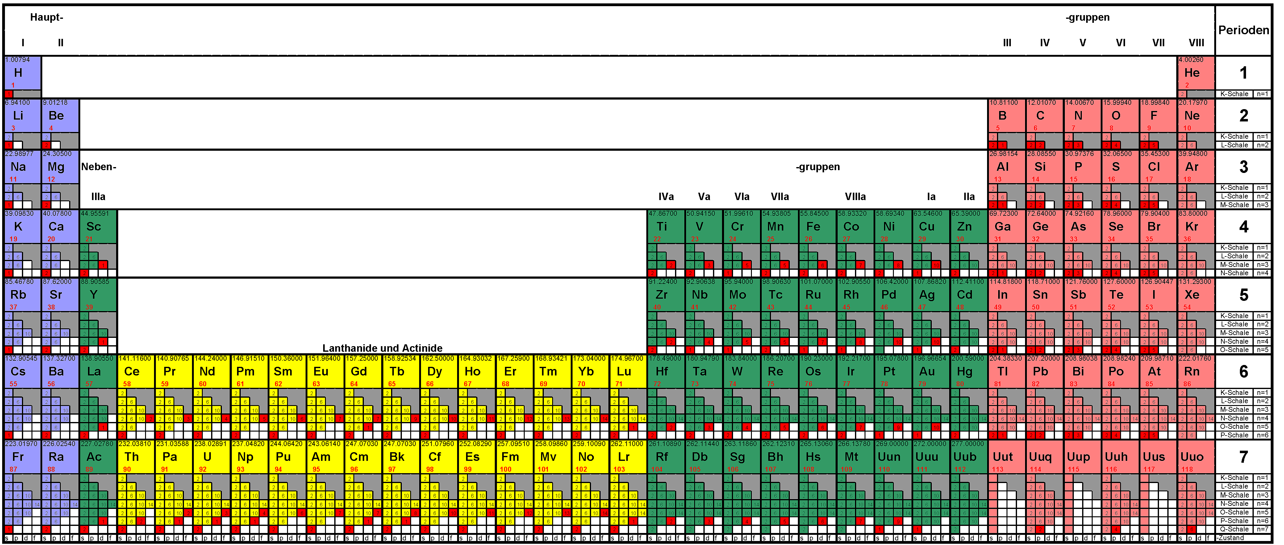 Detailed periodic table with complete electron configuration of each element.